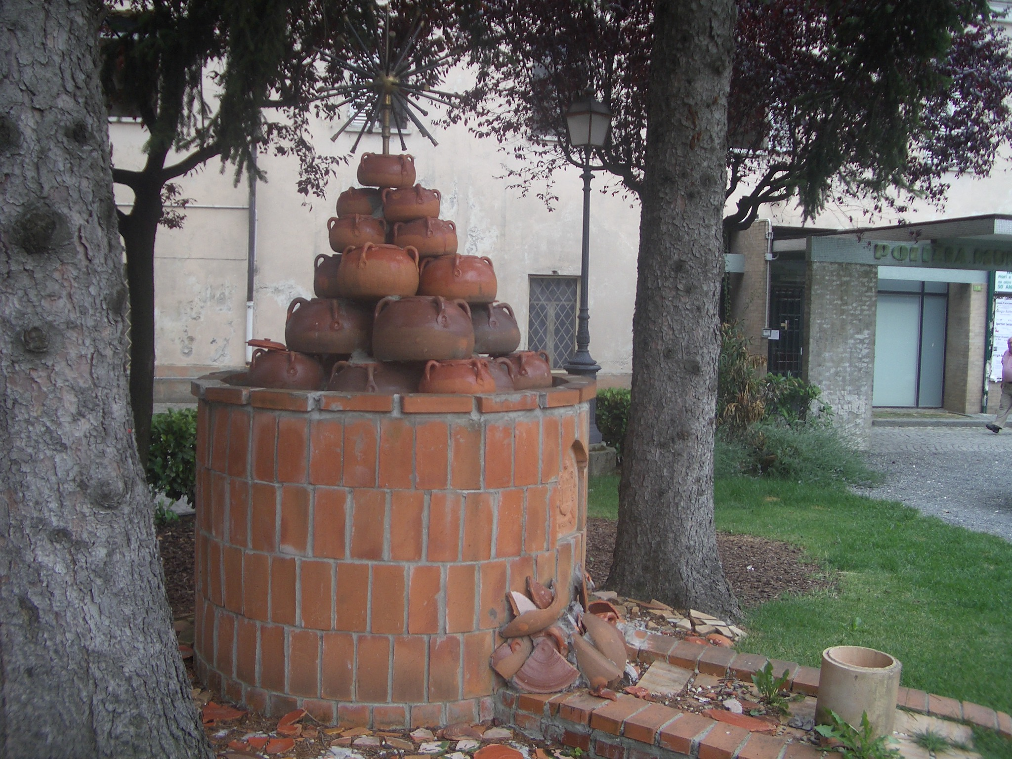 Castellamonte, a modern artifact symbolizing the traditional pottery production